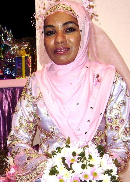 Bride in the Maldives